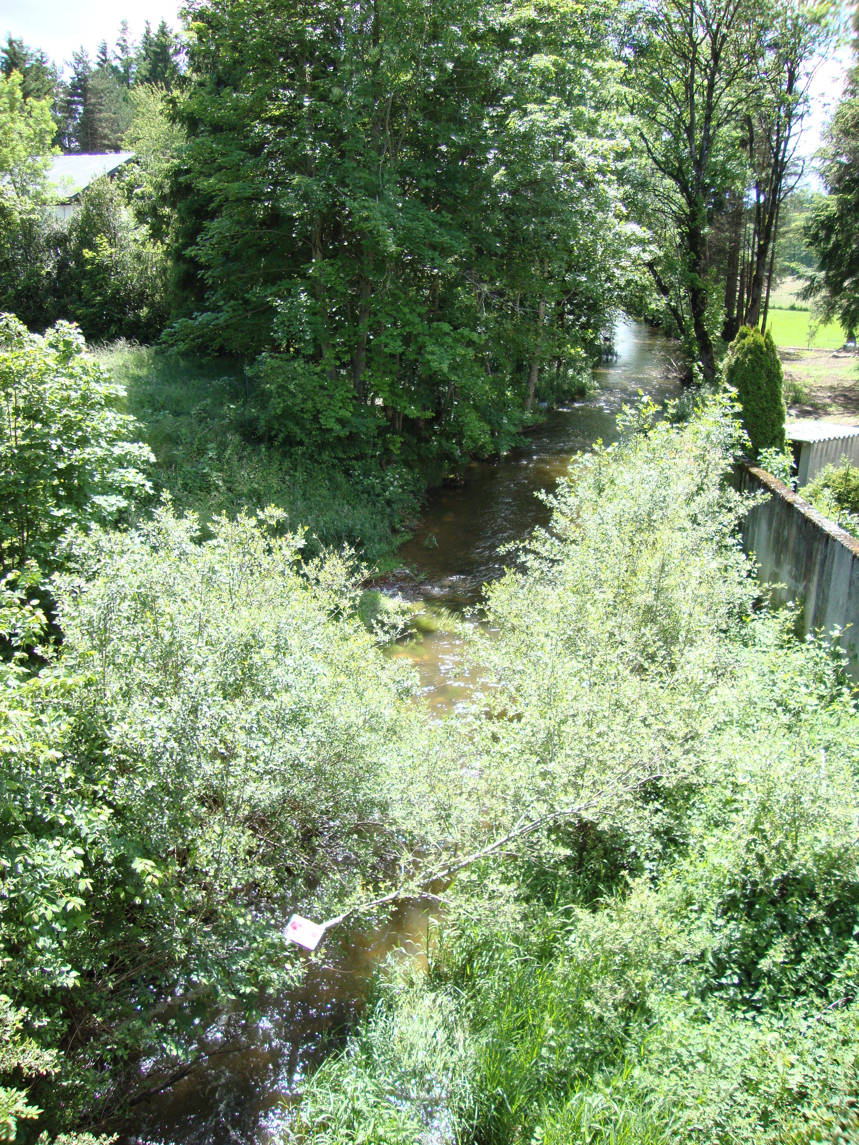 Murat-sur-Vèbre (Tarn, Fr) - Vèbre river.